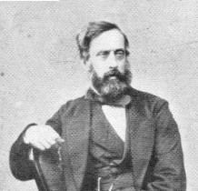 Portrait of John Croumbie Brown (1808-1895) - Colonial Botanist at the Cape